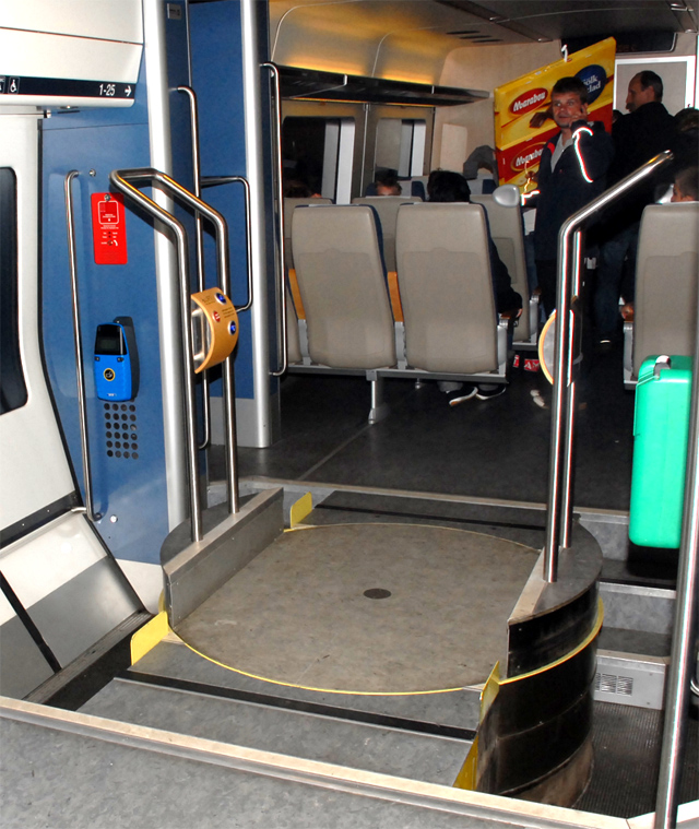 Wheelchair lift Swedish train the type of Regina. Here is the elevator in the highest position on the carriage floor.